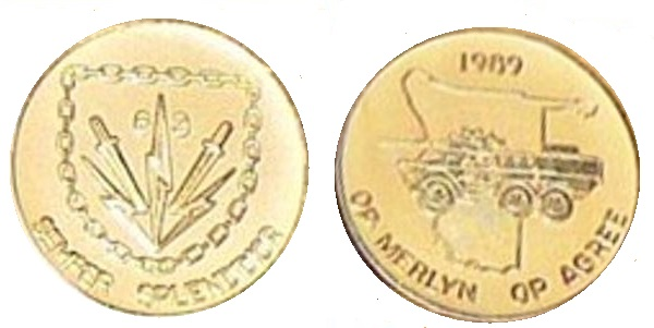 63 Mech commenorative medal